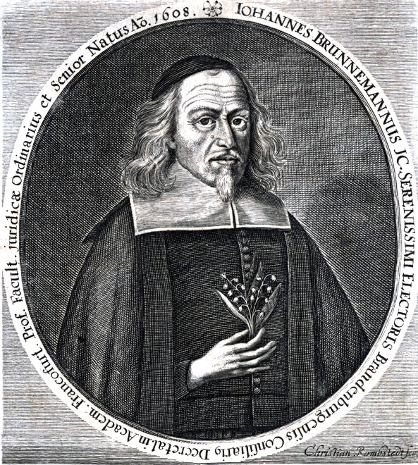 Johann Brunnemann (1608-1672) German Jurist